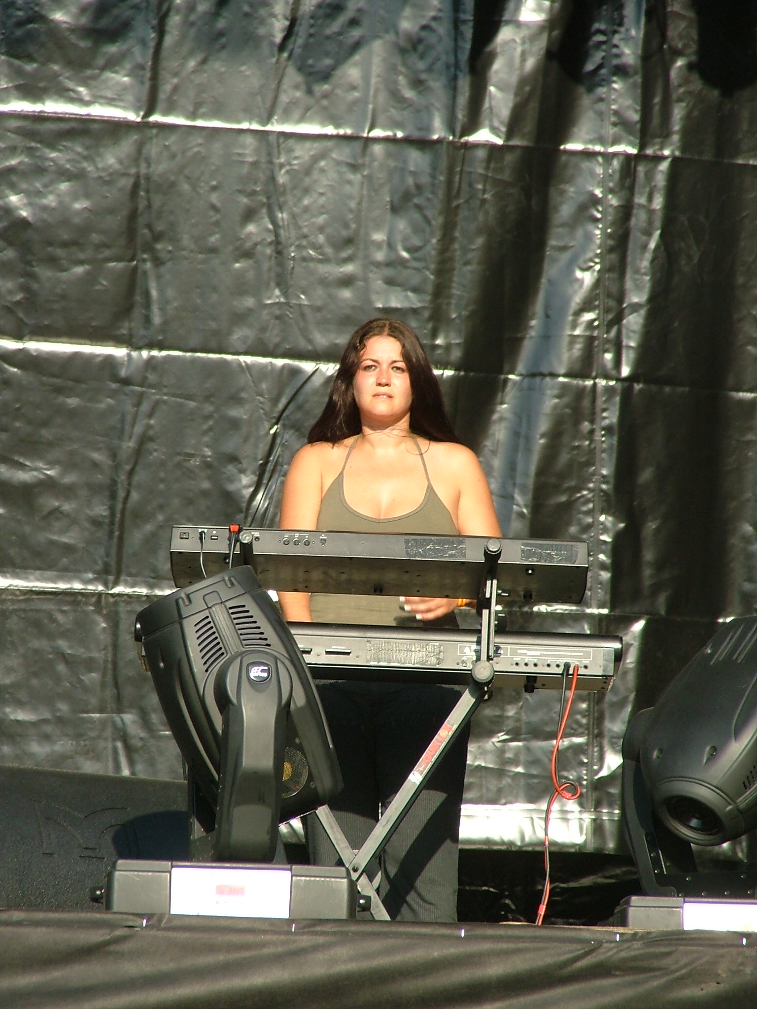 Italian dark metal band Graveworm at the Metalcamp in Tolmin